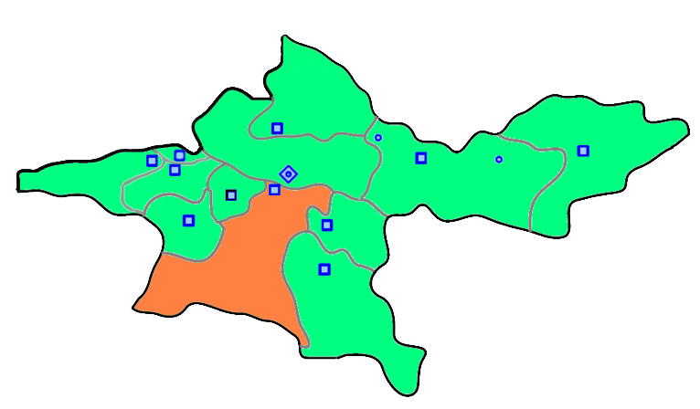 Ray county of the Tehran Province in Iran. Taken from: and edited by Mani Parsa.